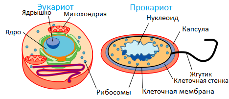 Types of cells (in russian)